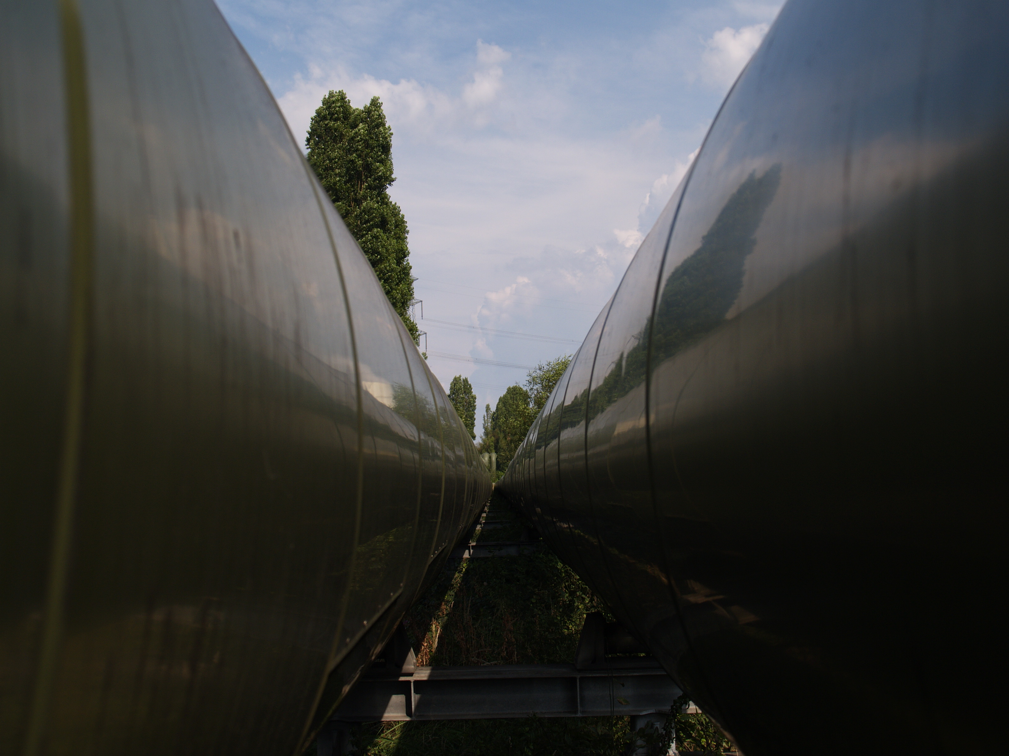 District heating pipeline for hot water